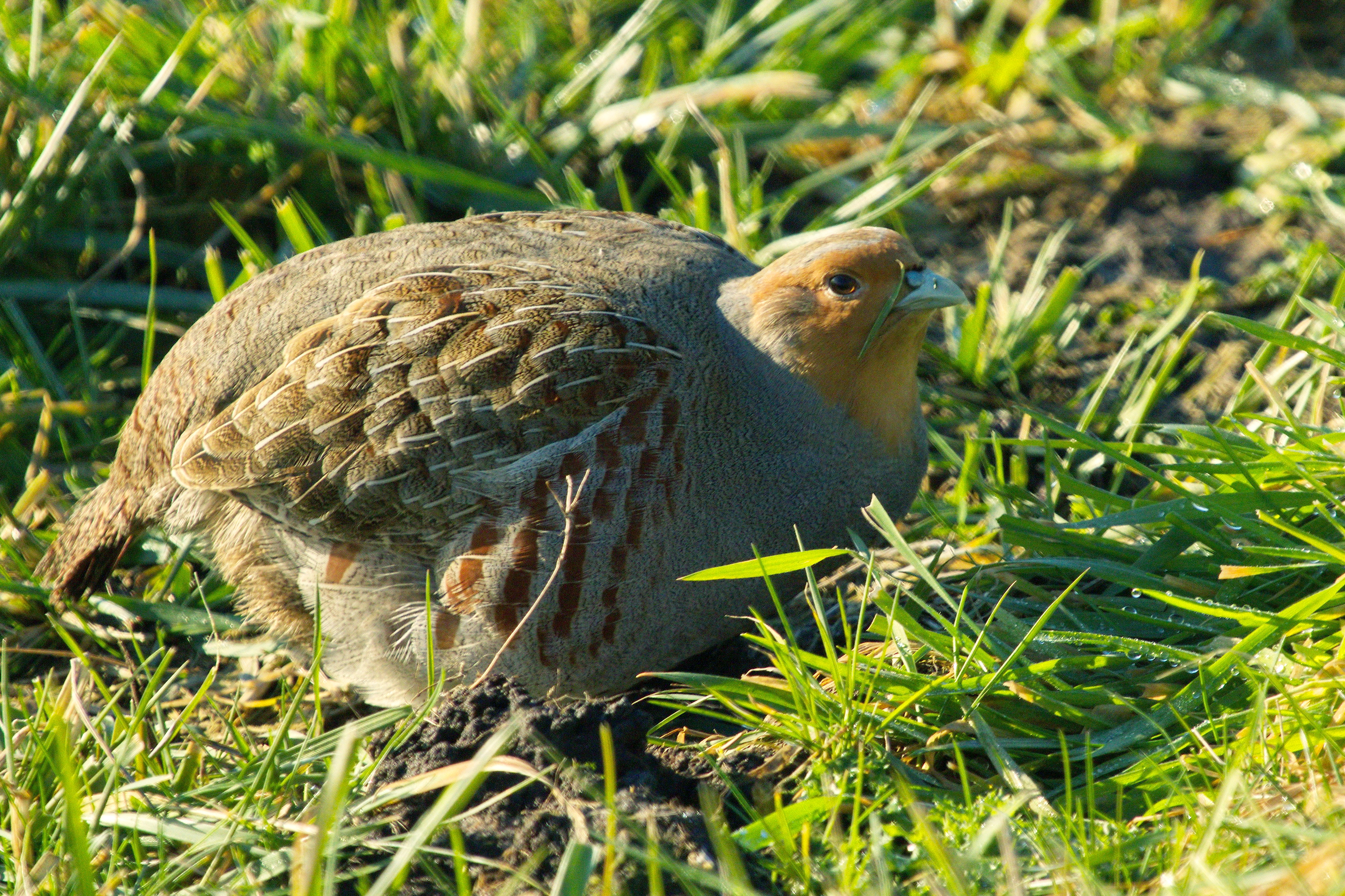 Grey Partridge Perdix perdix, Netherlands